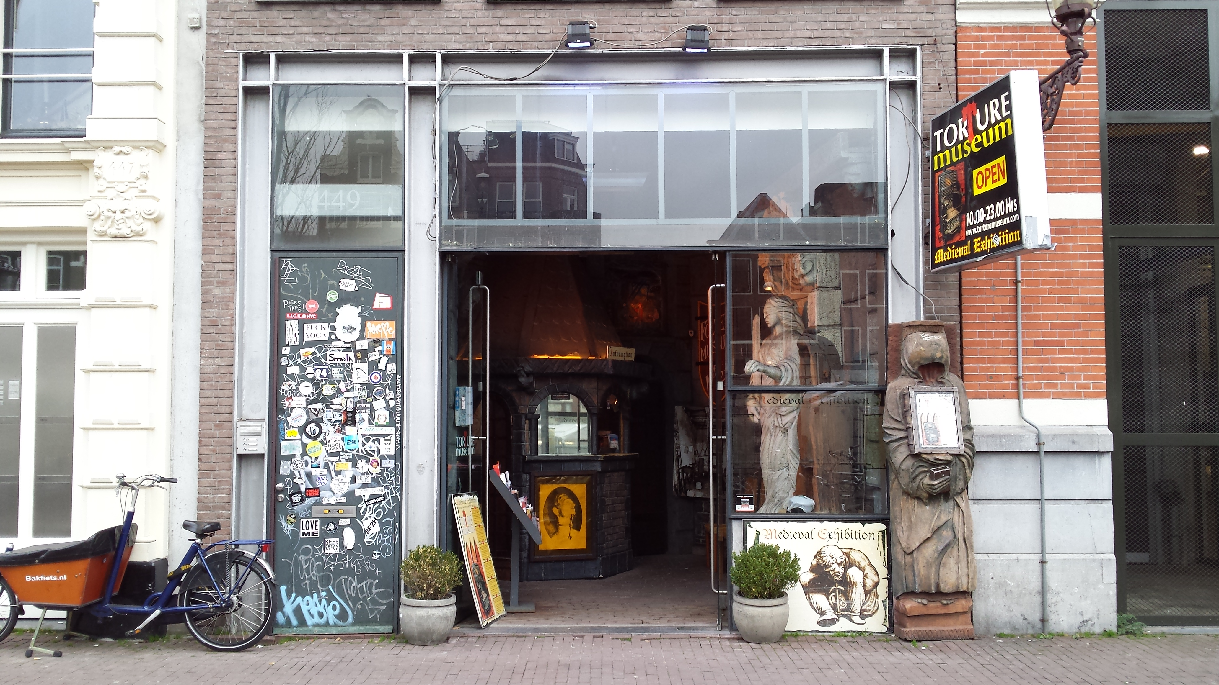 Main entrance of Torture Museum of Amsterdam, Nov. 2013. Photo by Persian Dutch Network